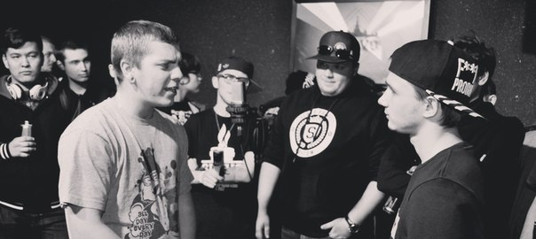 Баттл слово